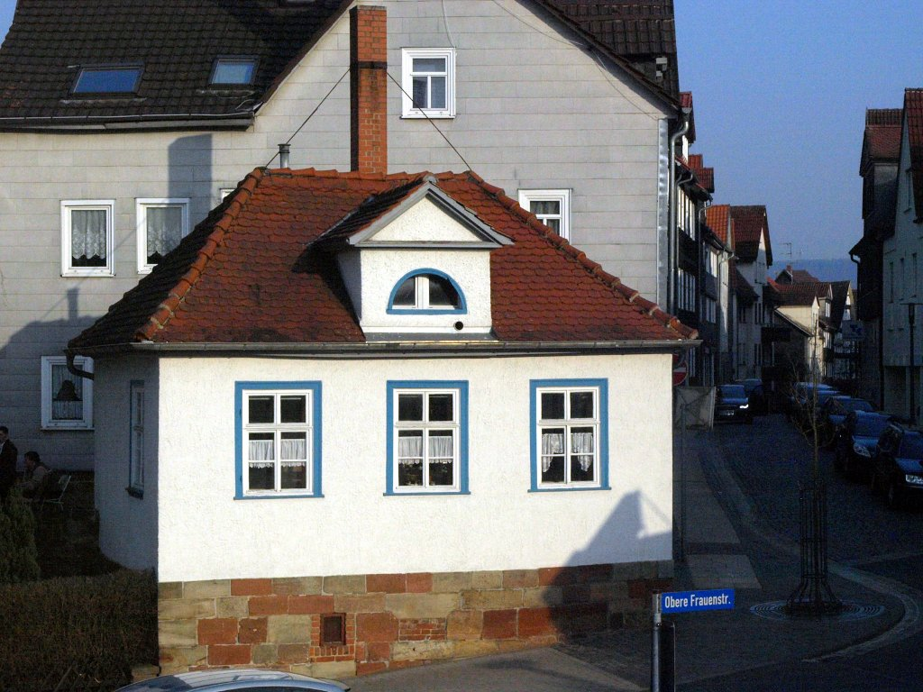 Former house for guardsman at town gate, built in 1829